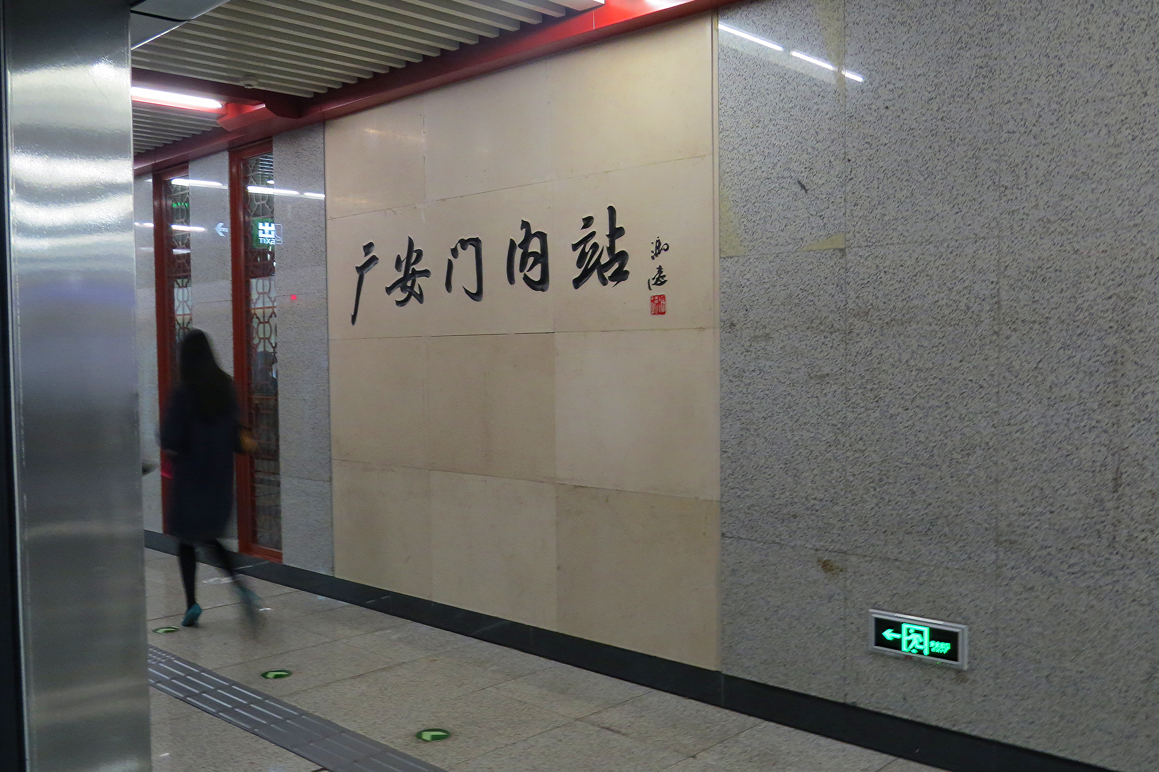 Abbreviated as Guangnei (广内).